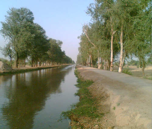 samiulla 28/3R Canal near Haroonabad